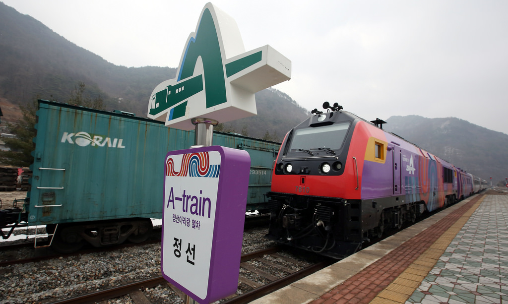 A-Train (Korail), Jeongseon Arirang Train, 정선아리랑열차, January 16, 2015, Jeongseon-gum, Gangwon-do, South Korea.